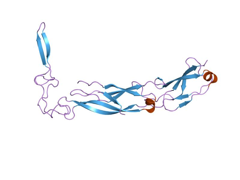 Cartoon representation of the molecular structure of protein registered with 1nlt code.